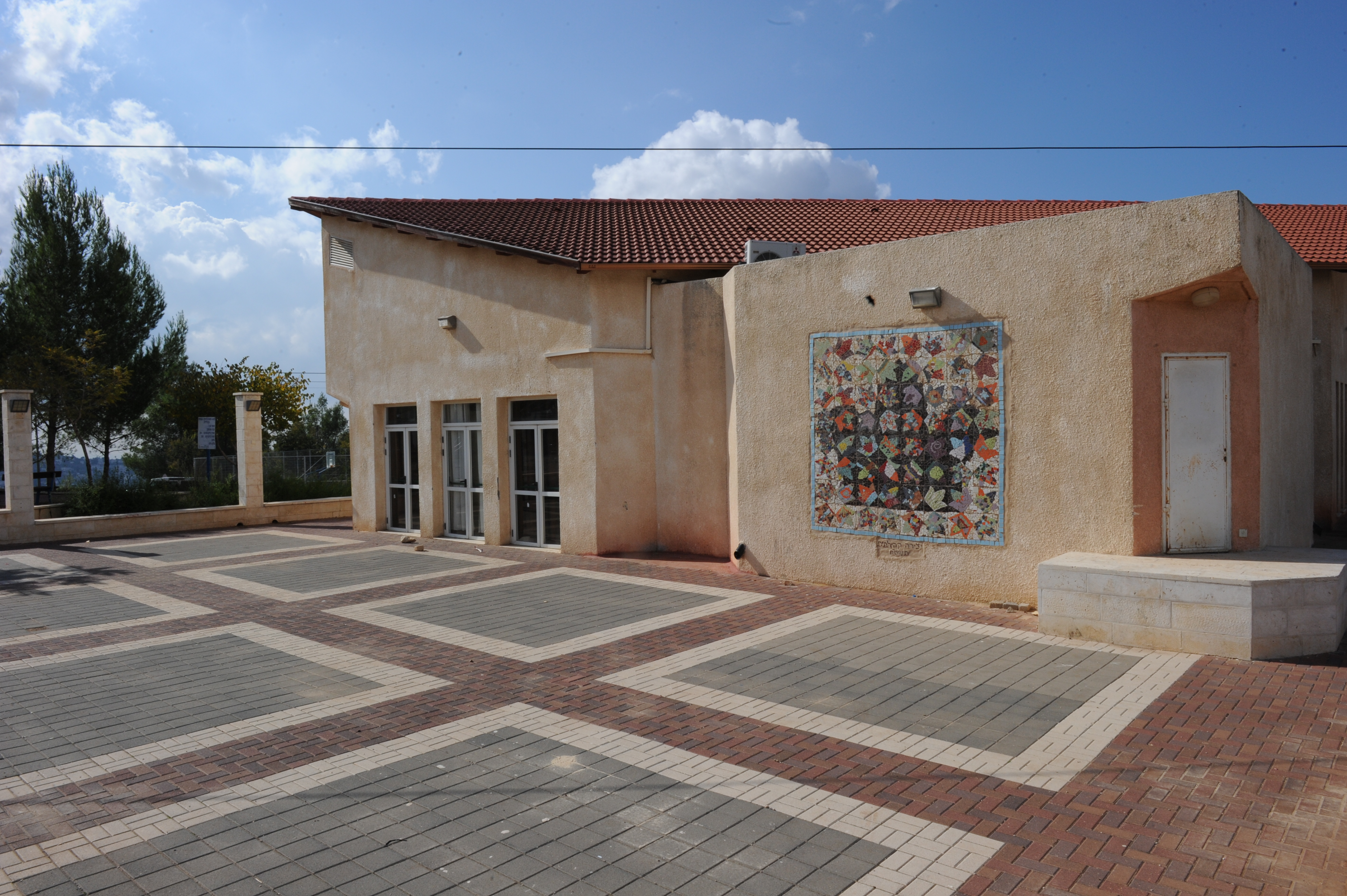 Ateret multi-purpose club